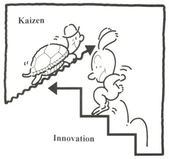 innovation and kaizen